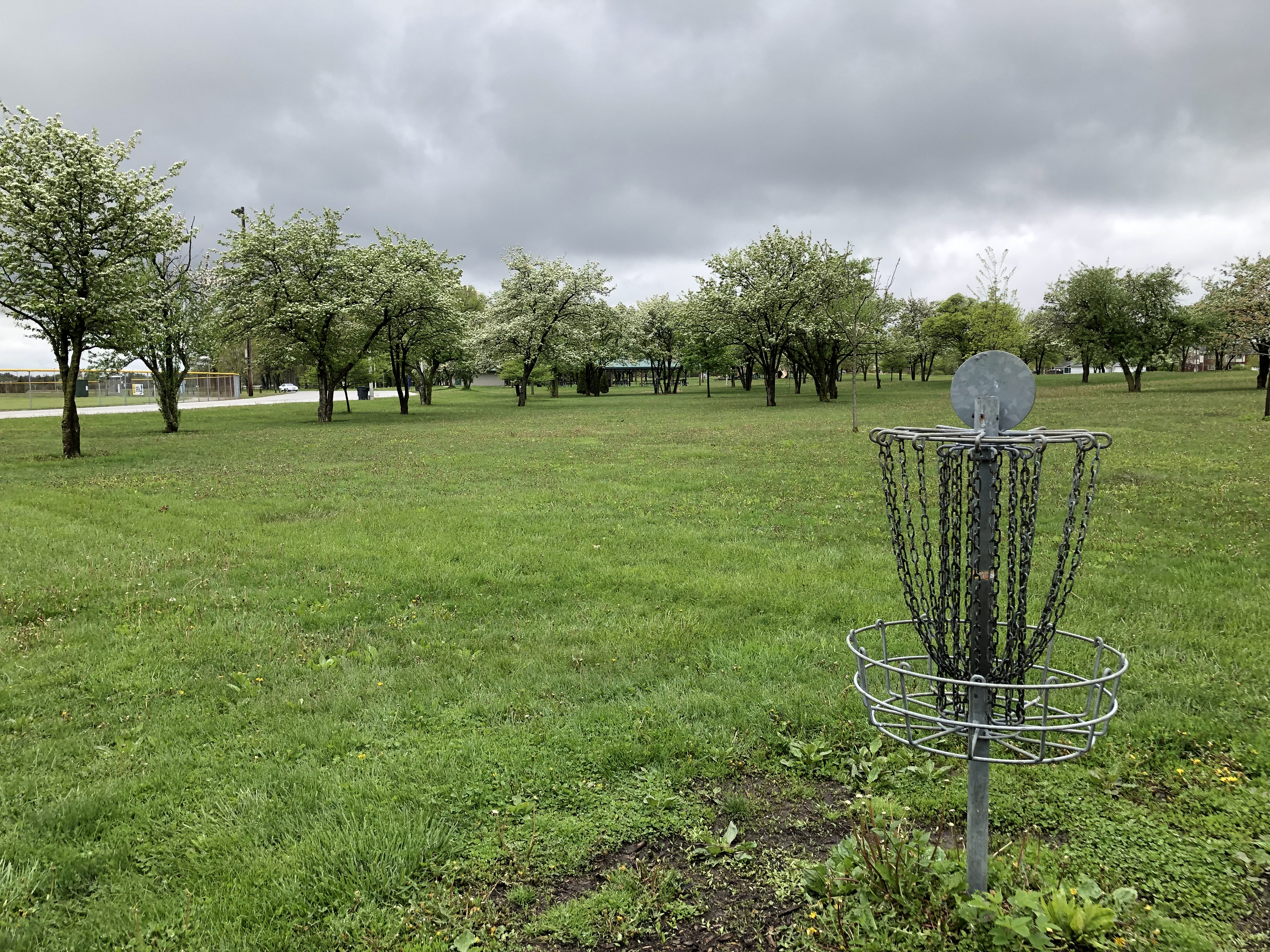 Disk golf at Carter Park